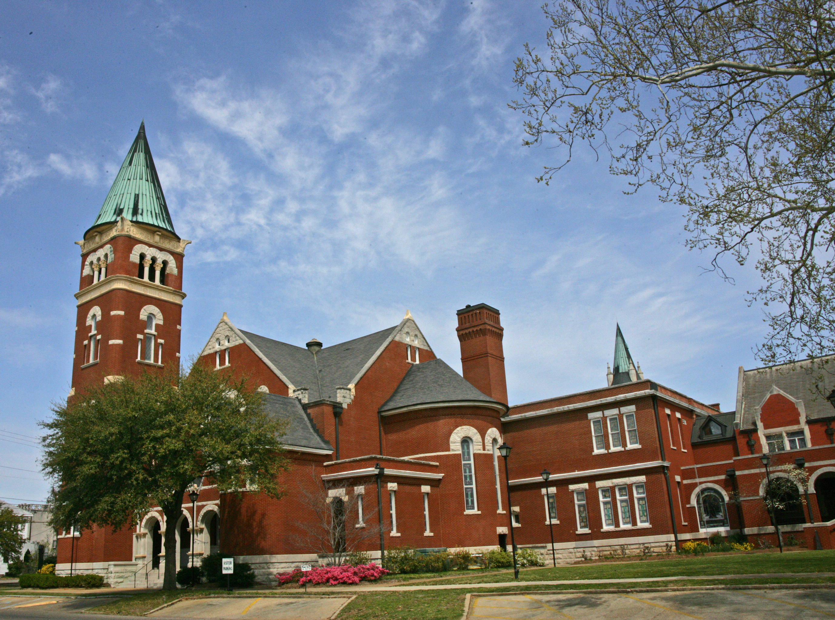 Church Street United Methodist Church in Selma, Alabama. Completed in 1901.